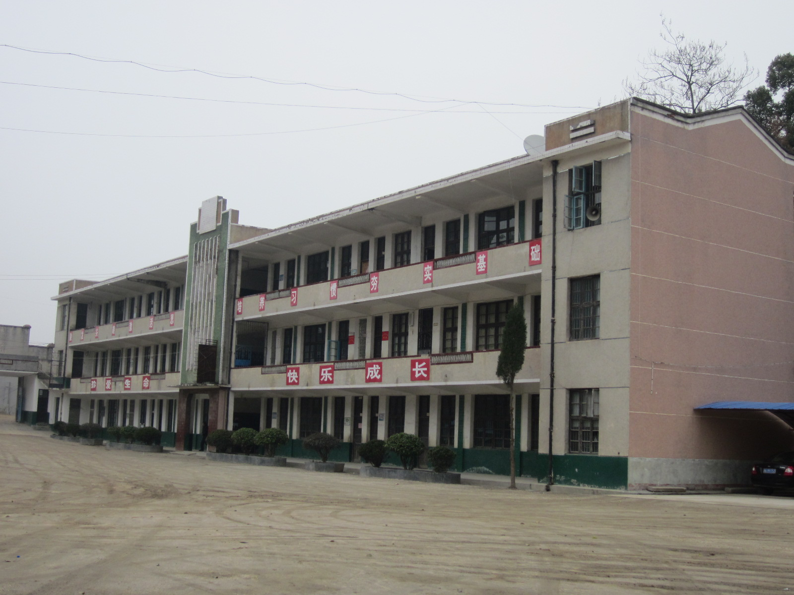 Teaching Building of Qingshanqiao Elementary School.